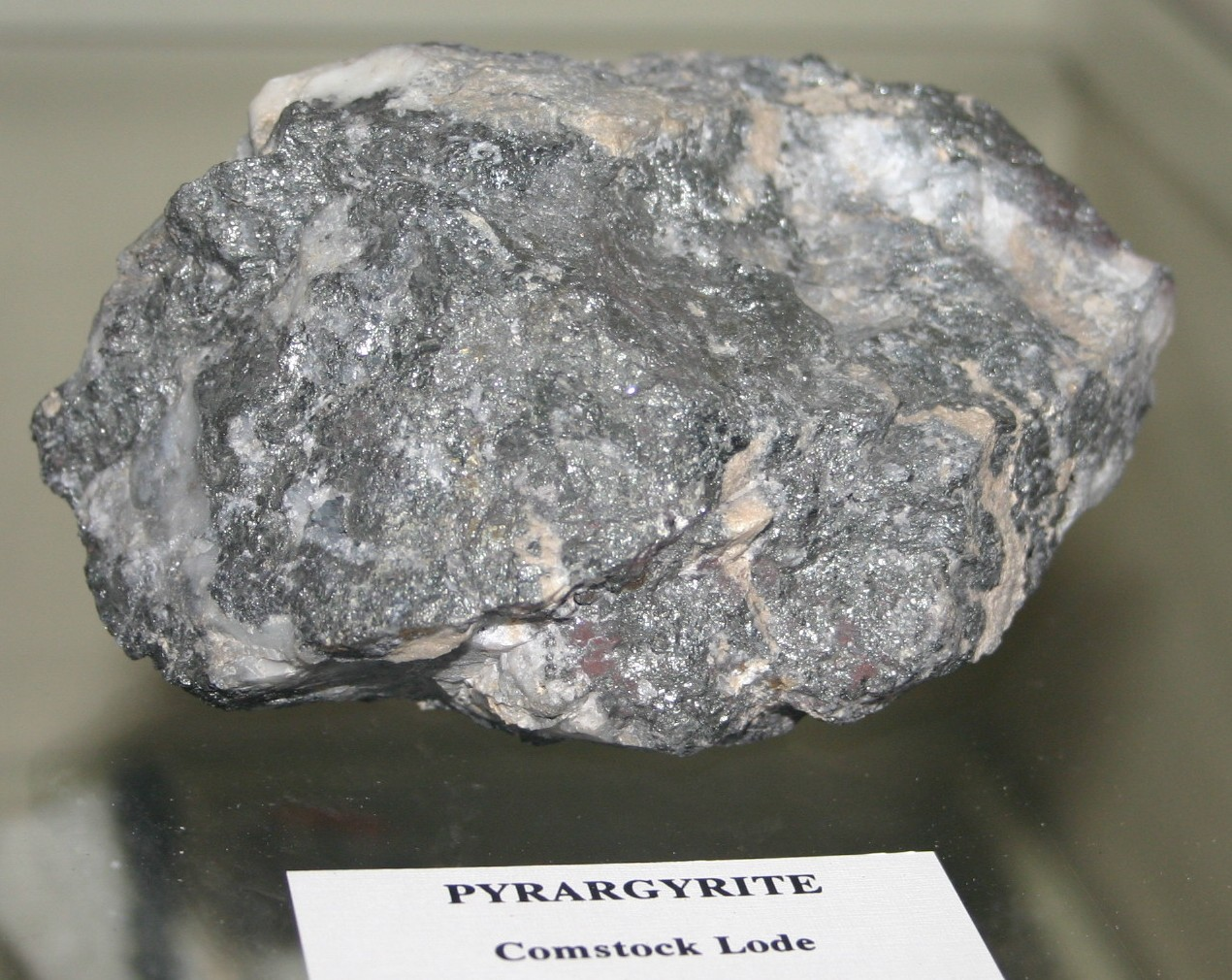 Source: Chris Ralph. This photo taken by Chris Ralph of [1], Photographer and author: photo taken by author.